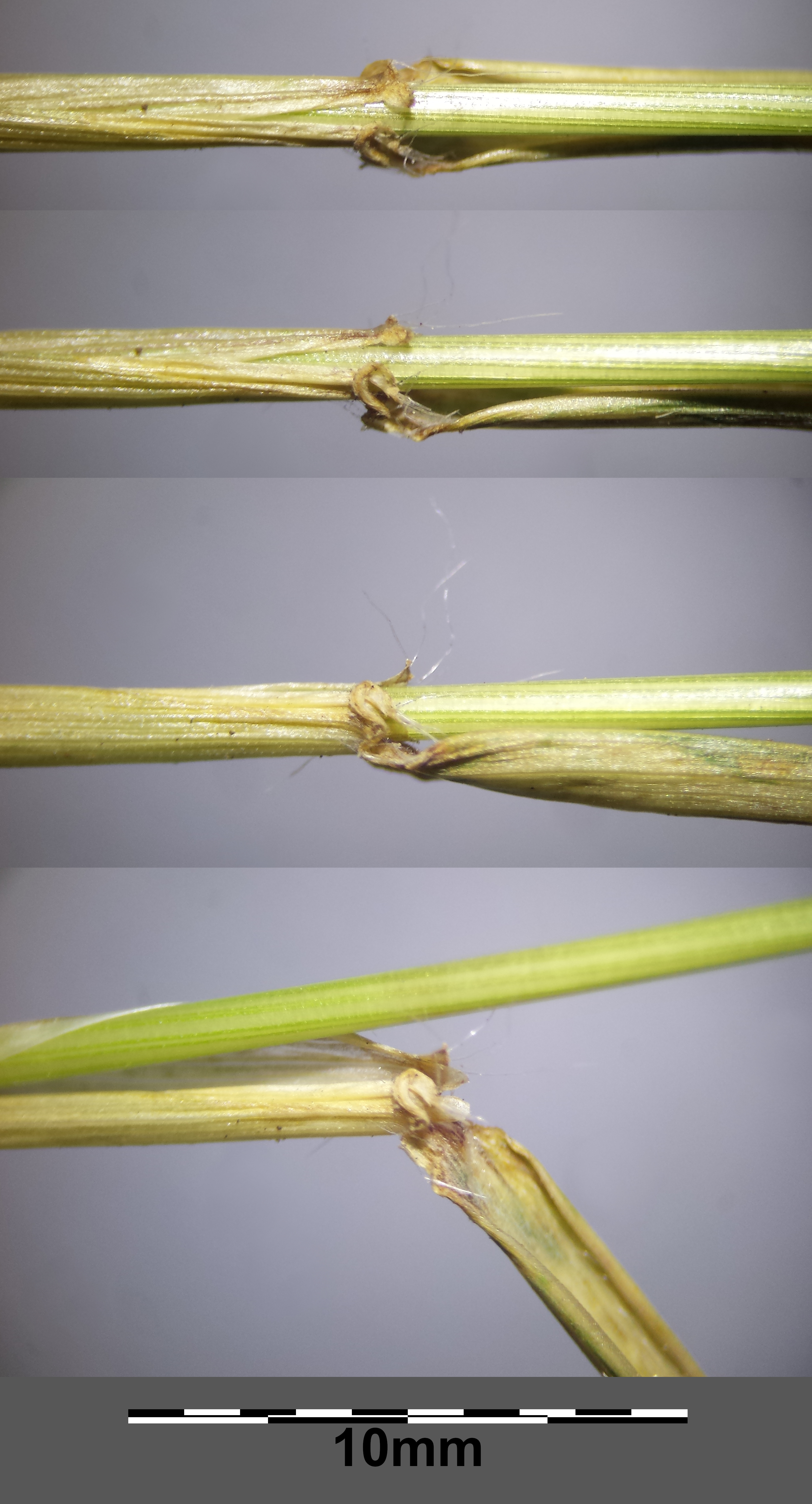 Stem with leaf sheath and ligule Taxonym: Aegilops triuncialis ss Rottensteiner: Exkursionsflora für Istrien ISBN 978-3-85328-067-6 Location: southweast of Stara Baška, community Punat, Krk, County Primorje-Gorski kotar, Croatia Habitat: rocks nearby seaside